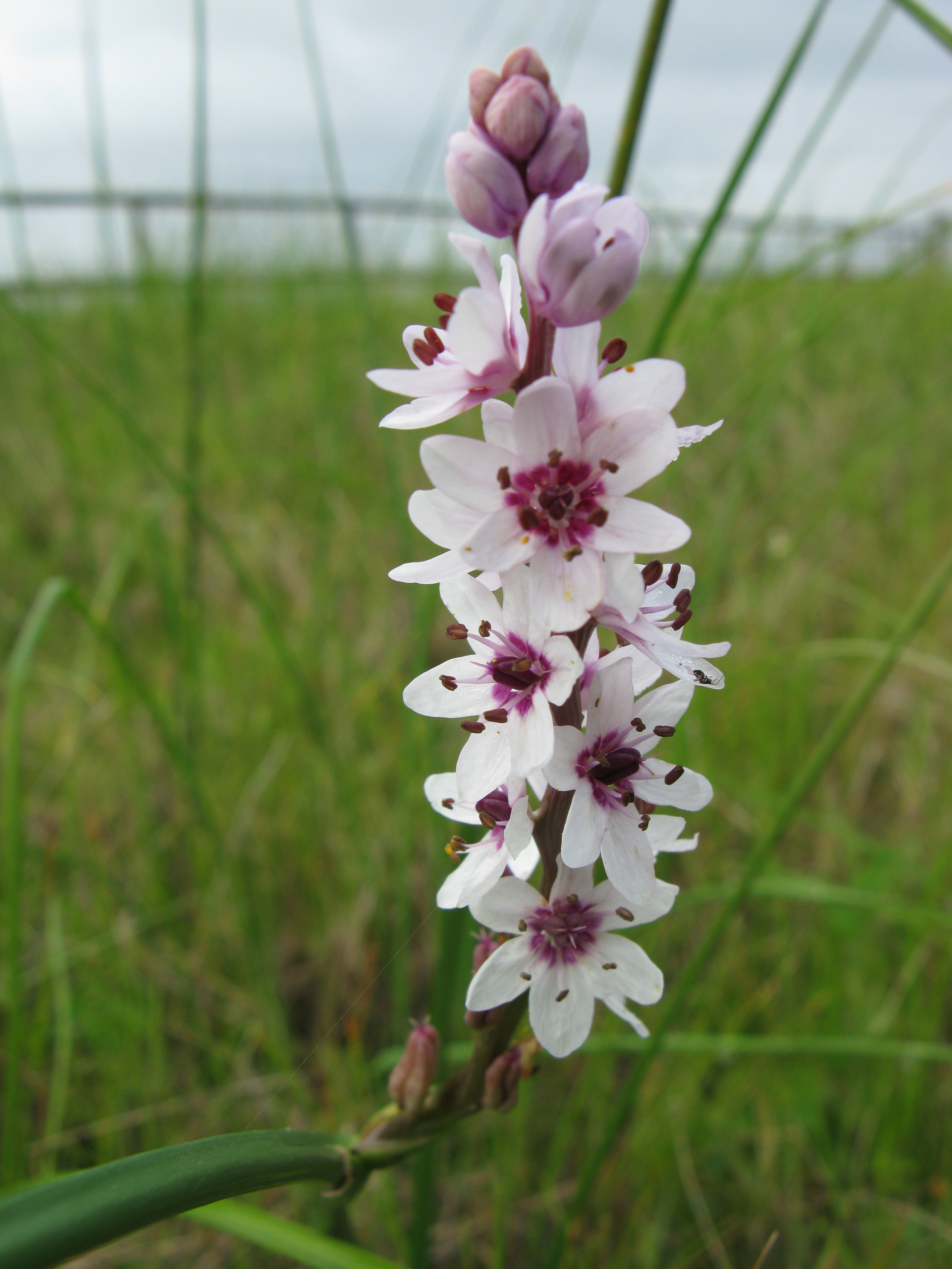 Plants near Hermon in Western Cape. The genus used to be called Dipidax, and then Onixotis.